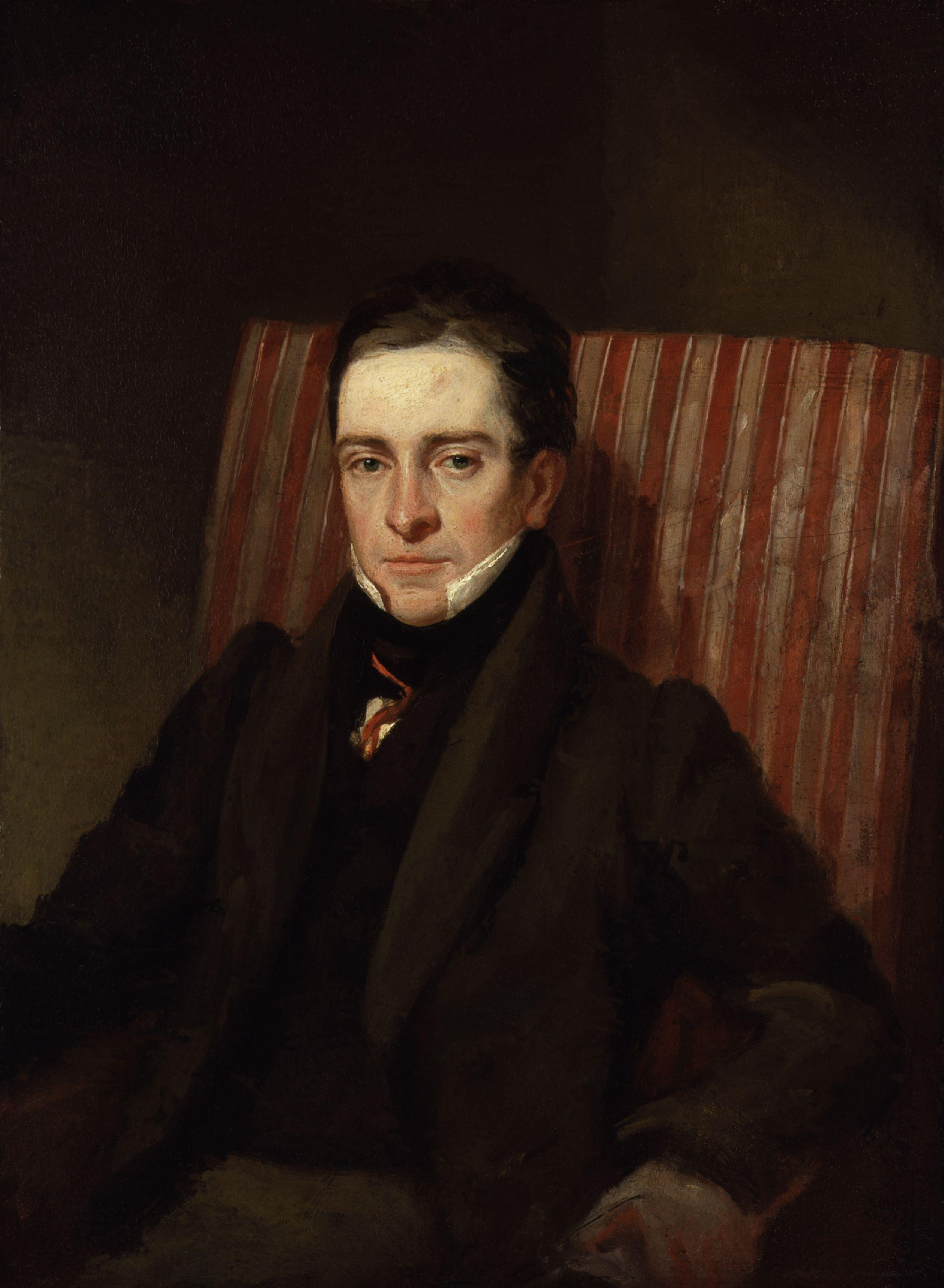 Thomas Hood, by unknown artist. 1799-1845 All images in this batch are listed as "unknown author" by the NPG, who is diligent in researching authors, and was donated to the NPG before 1939 according to their website.